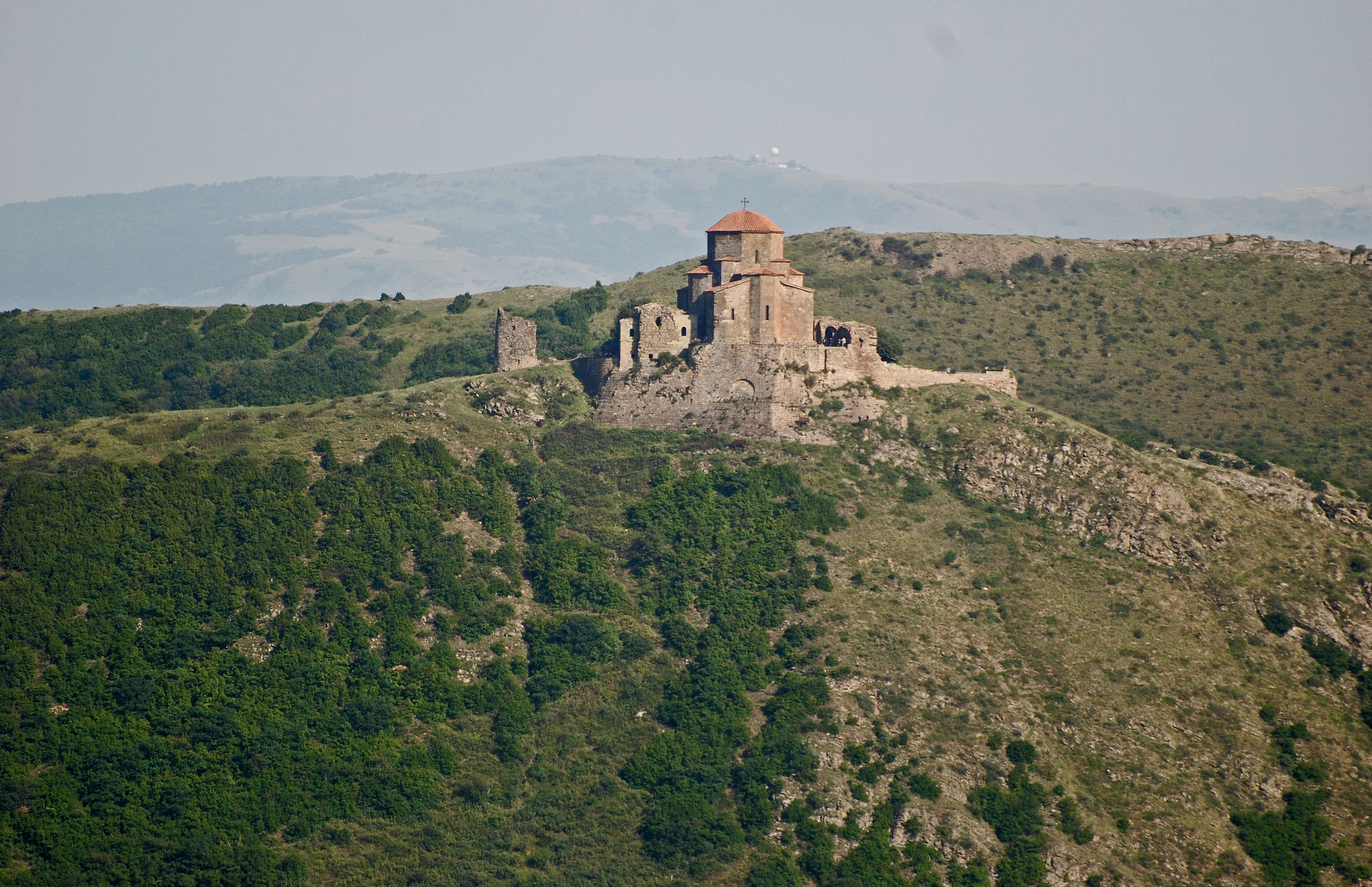 Jvari Monastery in Mtskheta, Georgia